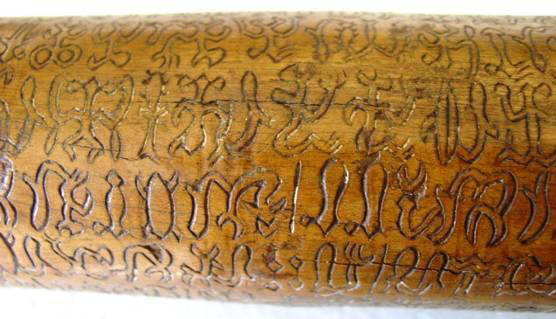 A mid section of the Santiago Staff, lines 8–11. The right-side-up full line is 10, and the up-side-down full line is 9.